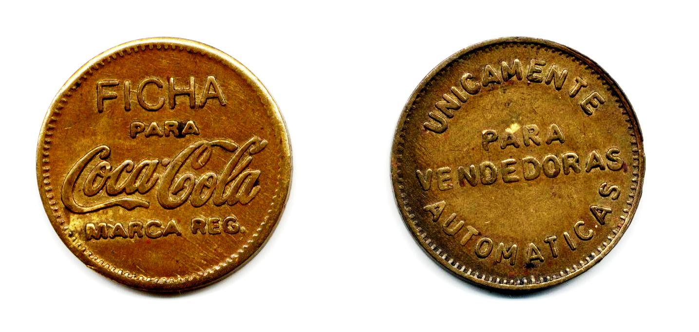 Token for Coca Cola vending machines.